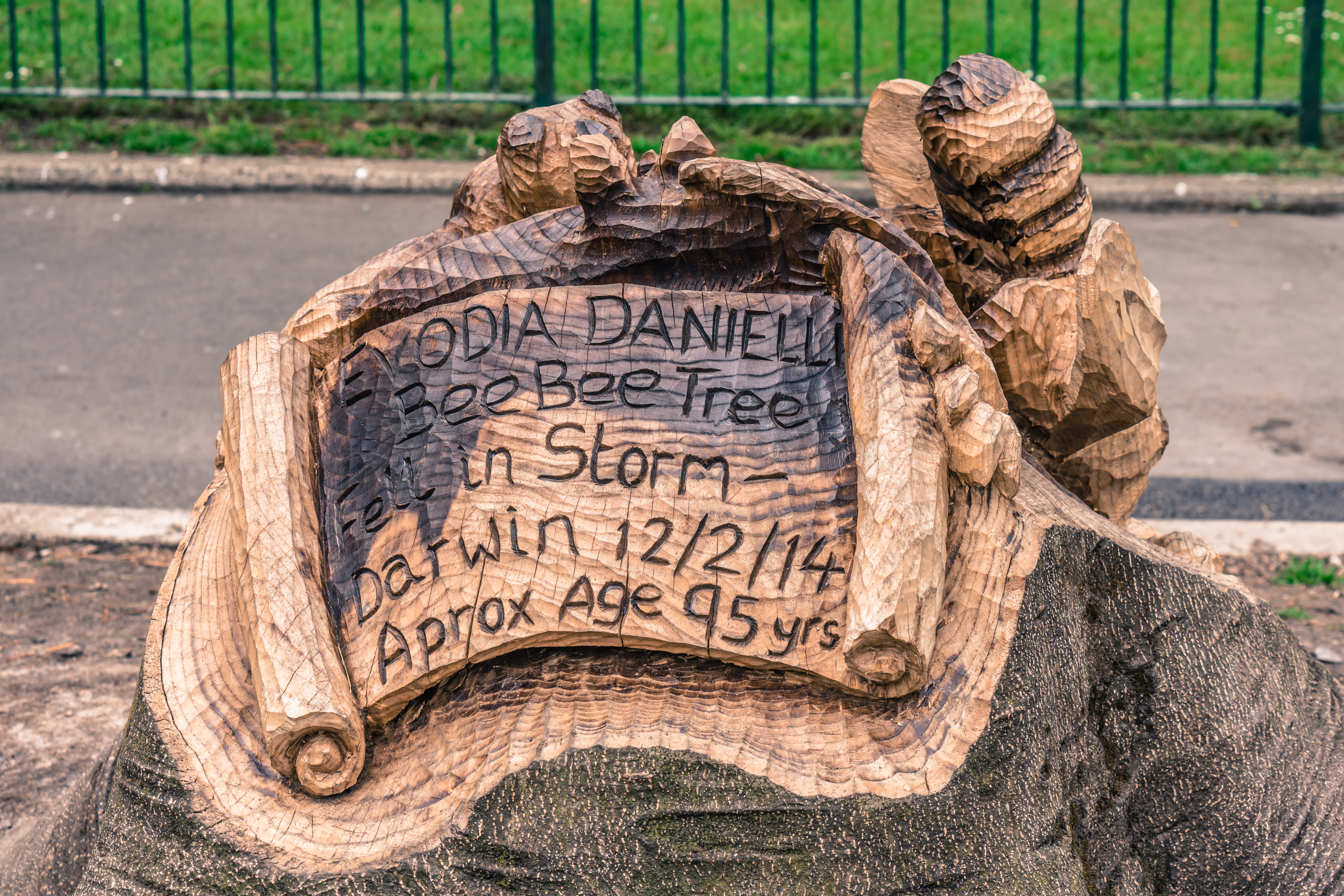 Some of the oldest and rarest trees knocked over in Limerick’s People’s Park by Storm Darwin have been given a new lease of life by being transformed into works of art. The park was forced to close for two weeks in February after Storm Darwin caused 19 trees to fall and work was needed to repair damaged pavements, railings and unblock pathways. Quite a few trees were lost, but staff were particularly sad to lose one of the rarest trees in the park, an ornamental tree called a ‘Tetradium Danielli” which was more than ninety years old. It’s commonly called a ‘Bee Bee’ tree as it is covered in late July and August with masses of small white flowers which attracts large numbers of bees as a source of late summer honey. Zambian woodcarver Paradazi Havatyitye carved three beautiful bees in the remaining stump.